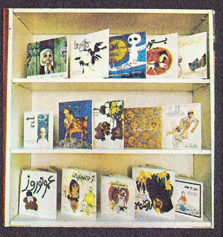 Kanoon-e parvaresh, children books, Iran